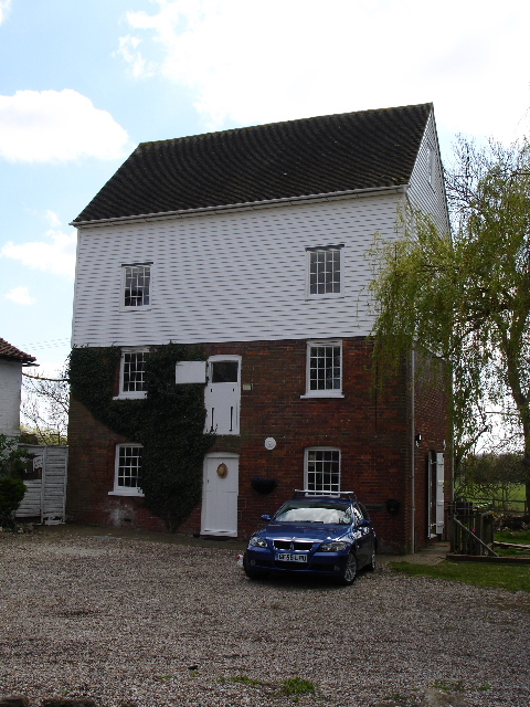 Photo of Evegate Mill, Smeeth